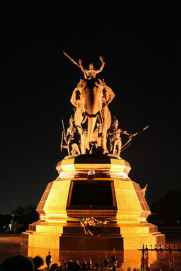 Memorial of Queen Suriyothai , Ayutthaya , Thailand